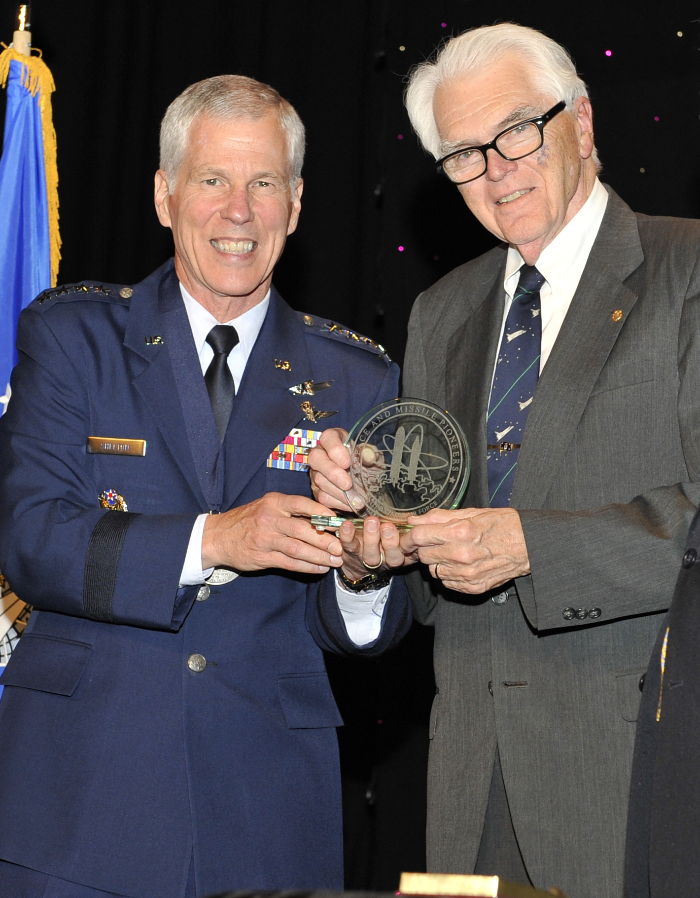 Dr. Hans M. Mark, former Secretary of the Air Force, receives the Air Force Space and Missile Pioneers award from General William Shelton, Air Force Space Command commander, during a banquet hosted by the Space Foundation in honor of Air Force Space Command’s 30th anniversary celebration Sept. 14, 2012, Colorado Springs, Colo. The award recognizes individuals for their significant role in the history of Air Force space and missile programs. (U.S. Air Force photo/Staff Sgt. Christopher Boitz/Released)